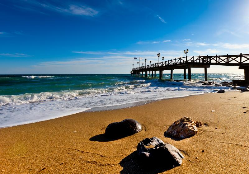 Marbella, Spain.